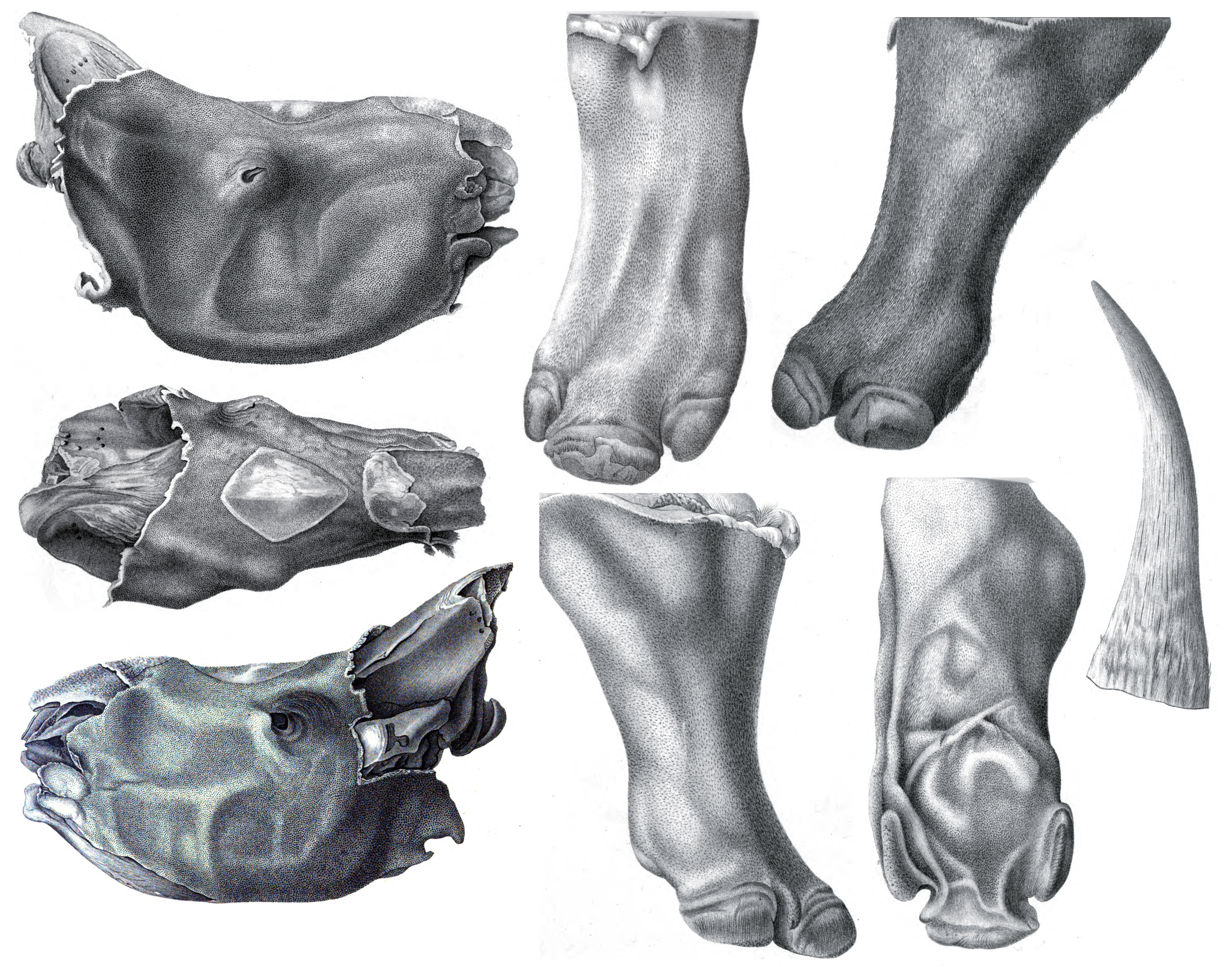 Lithographs of a frozen head, leg and horn of a woolly rhinoceros from Siberia.